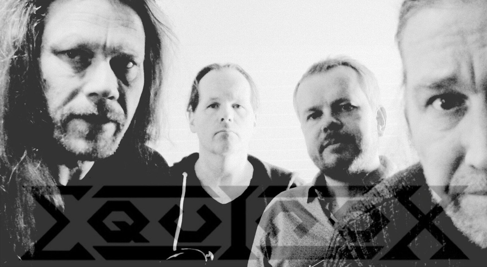 The Norwegian thrash metal band Equinox in 2018.